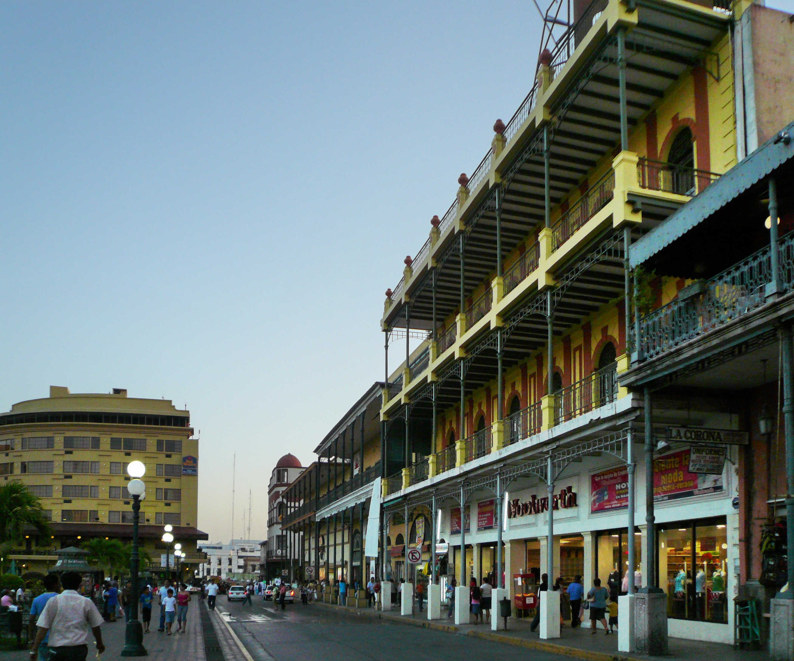 Tampico(Mex) arquitecture similar to the one found in New Orleans (US)